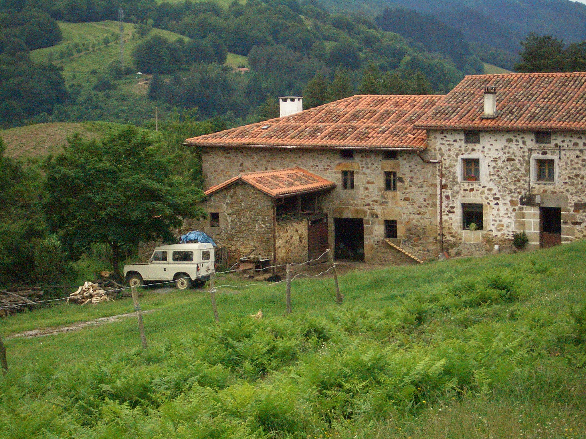 A farmhouse in the hills SE of Leintz-Gatzaga, between Vitoria-Gasteiz and Aretxabaleta